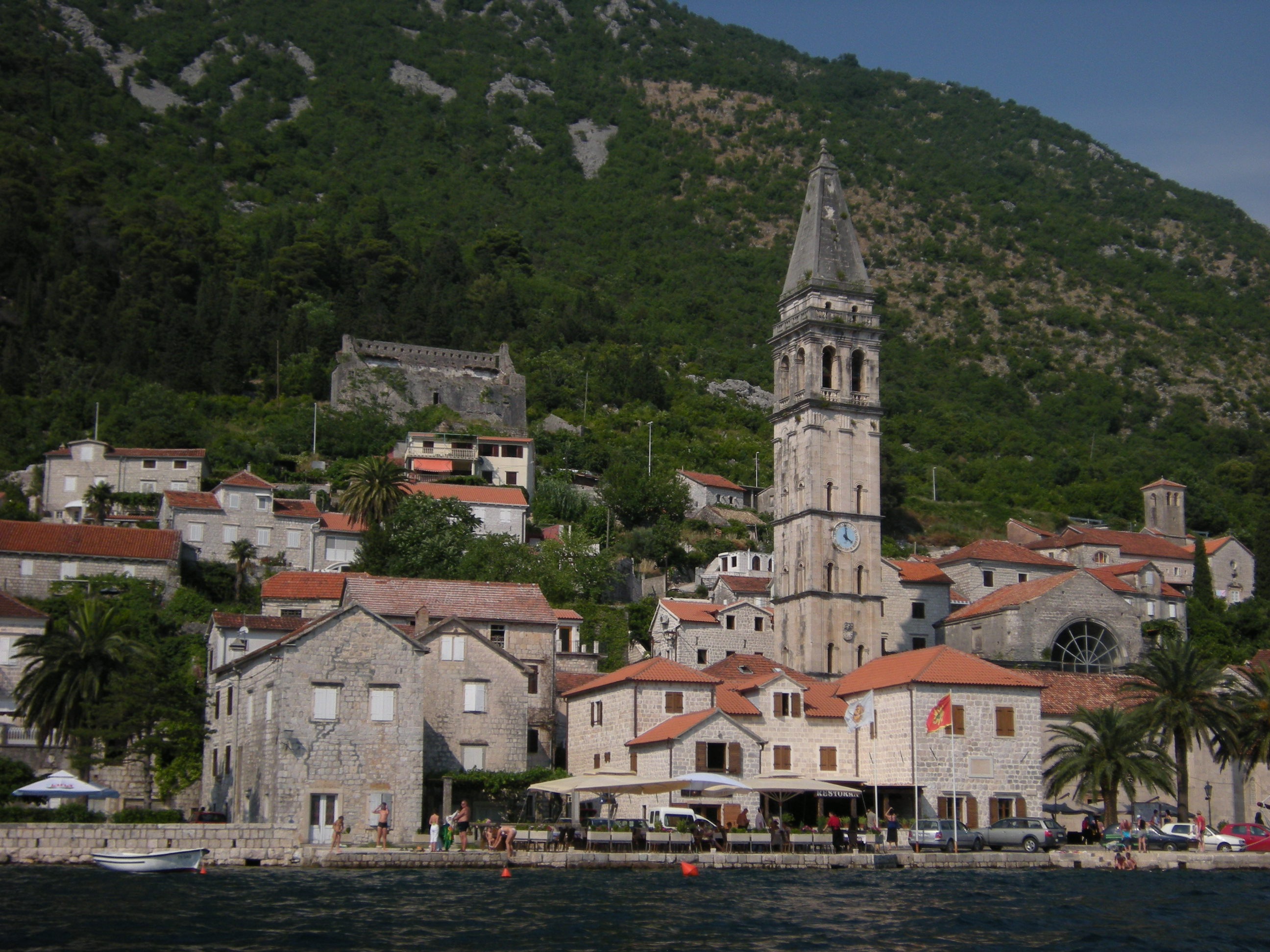 Perast Motnenegro